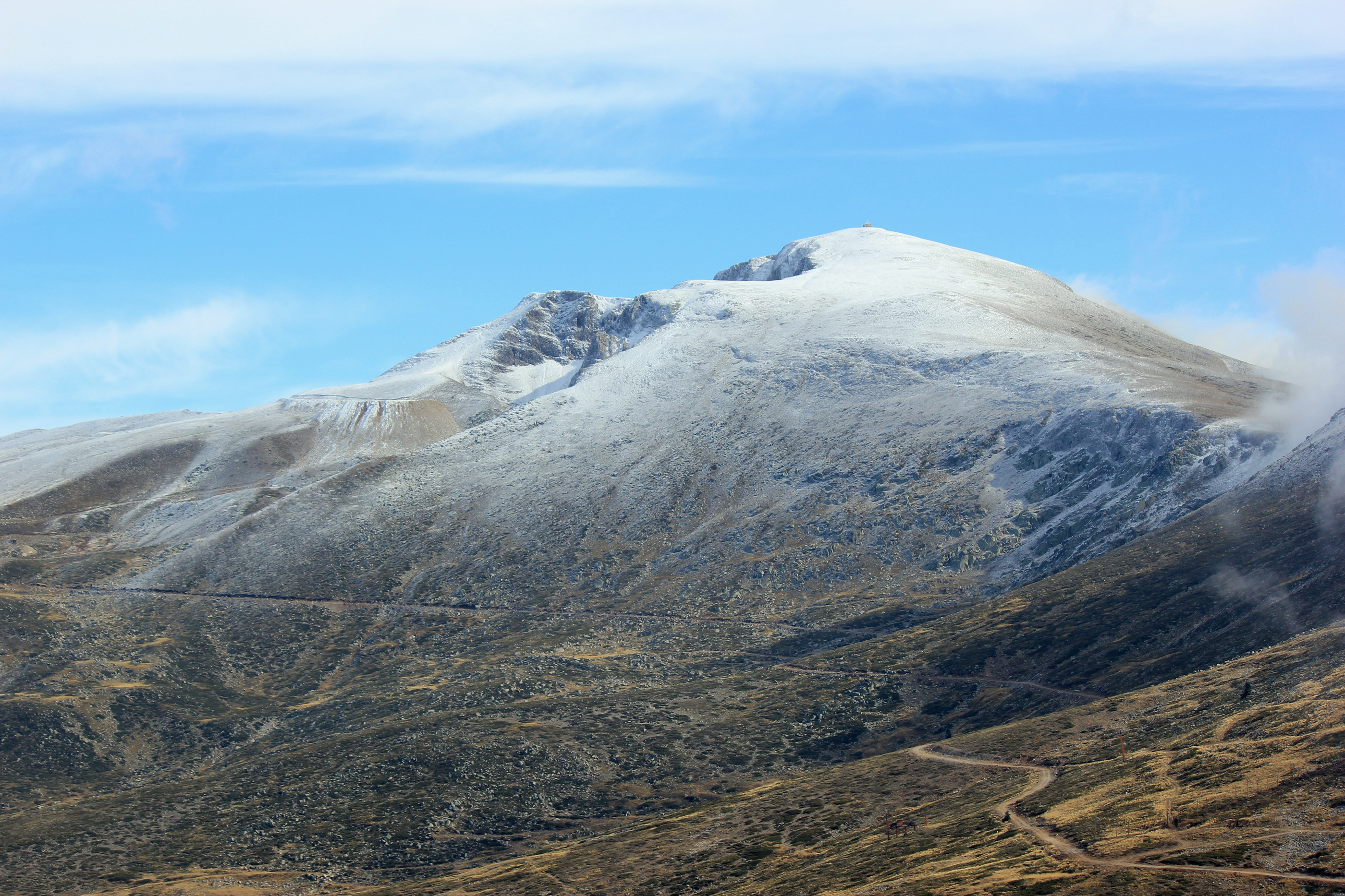 Mount Keşiş Tepe 5km from Uludağ near Bursa in November.Hornjoserbsce: Hora Uludağ blisko Bursy w Turkowskej spočatk nowembra.